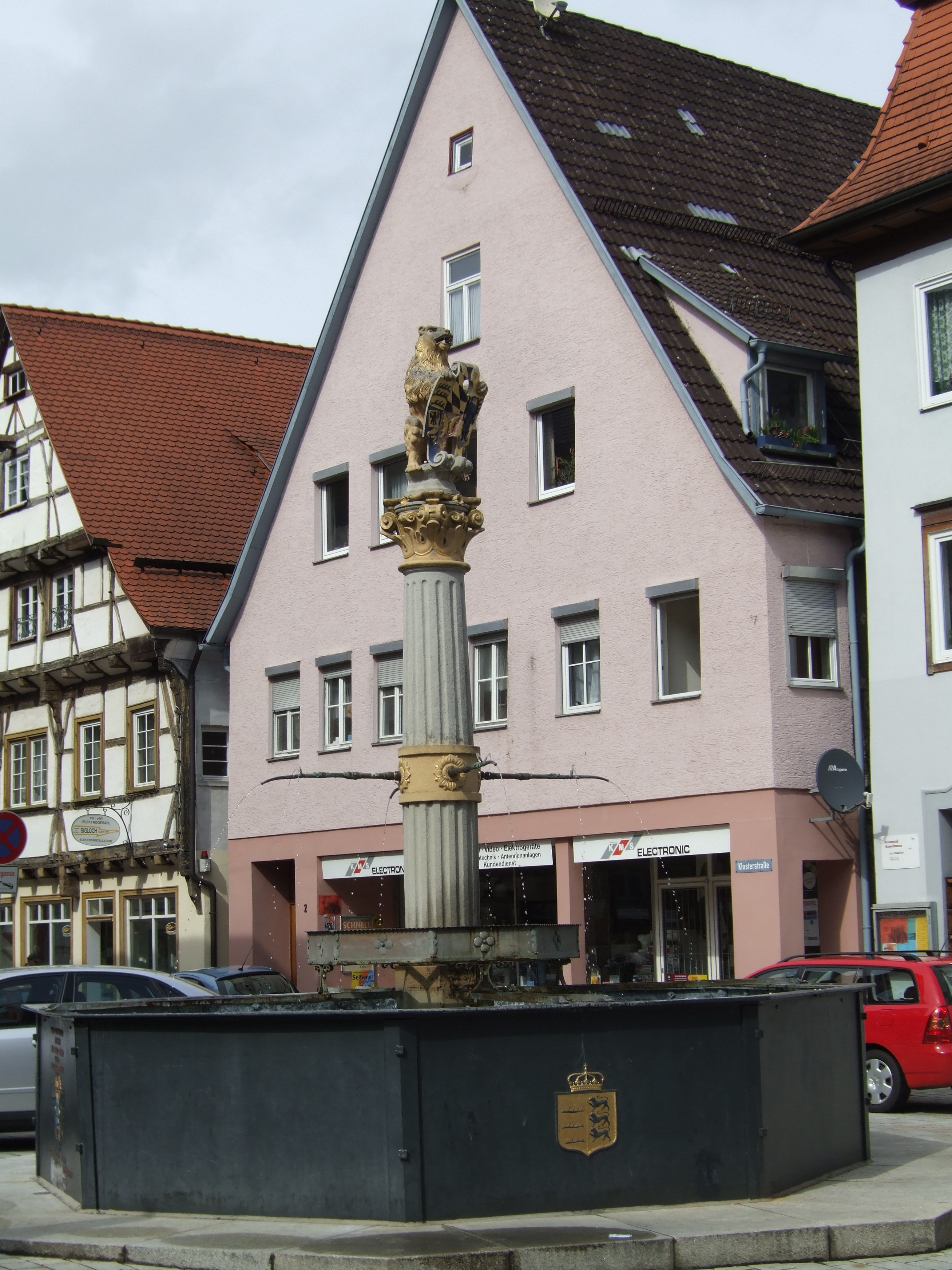 The fountain at Rathaus Square in Blaubeuren (Germany)